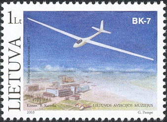 Stamps of Lithuania, 2003